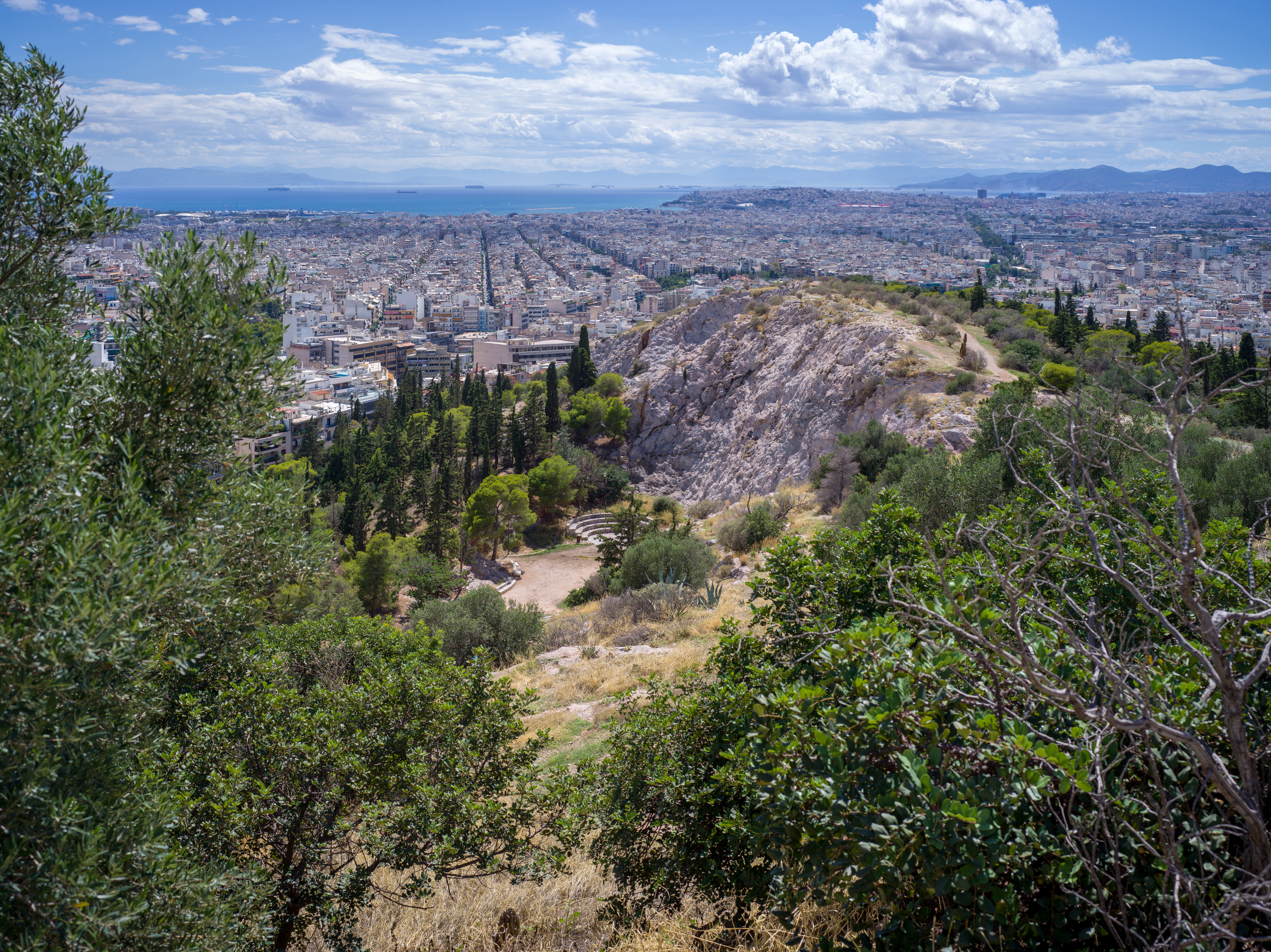 The Philopappos Hill in Athens.